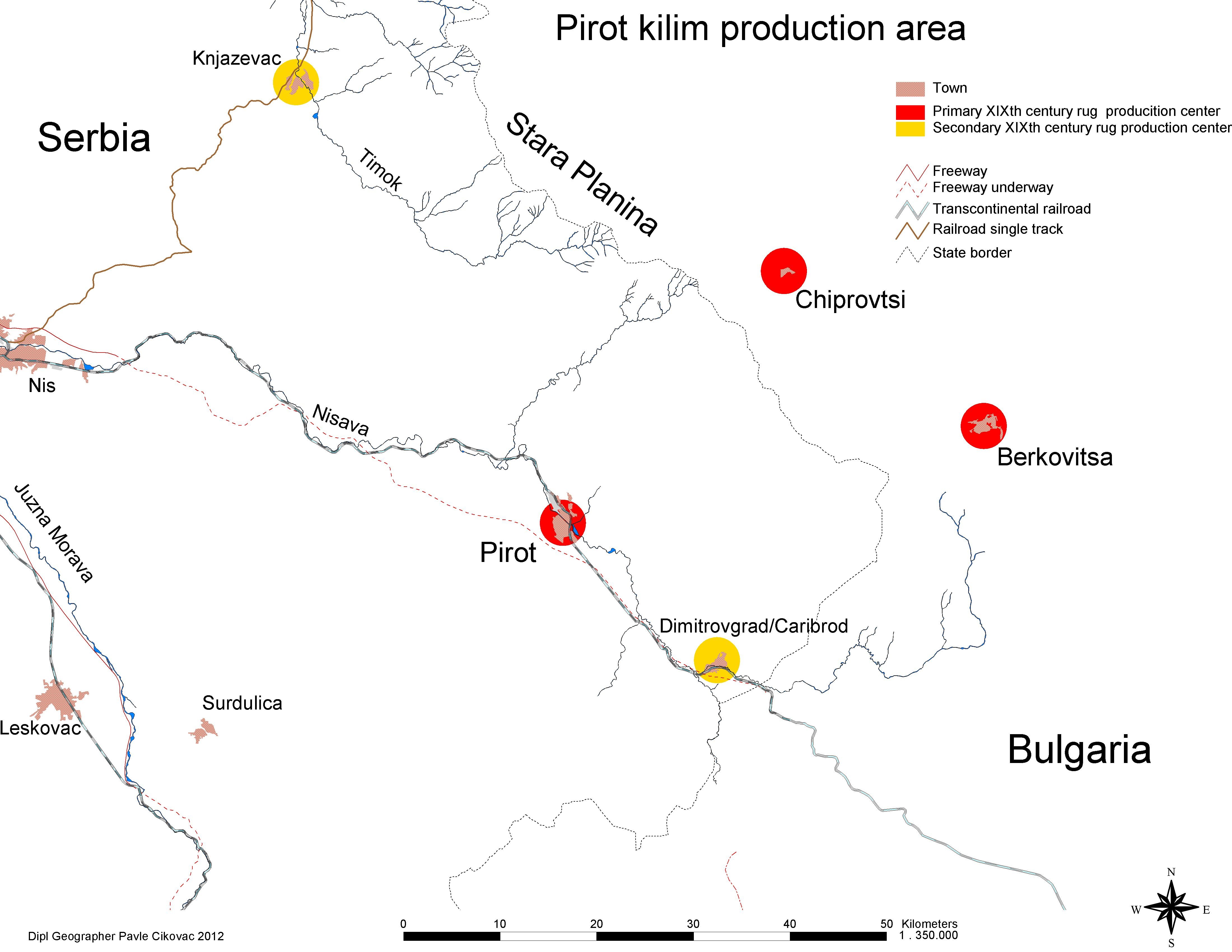 Map of the Pirot kilim production area in the Stara Planina mountains in Serbia and Bulgaria